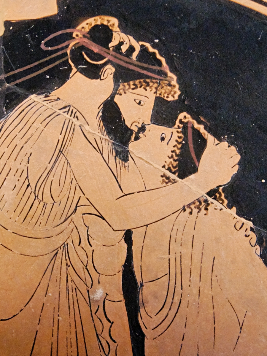 Erastes (lover) and eromenos (beloved) kissing, detail. Tondo of an Attic red-figured cup, ca. 480 BC.